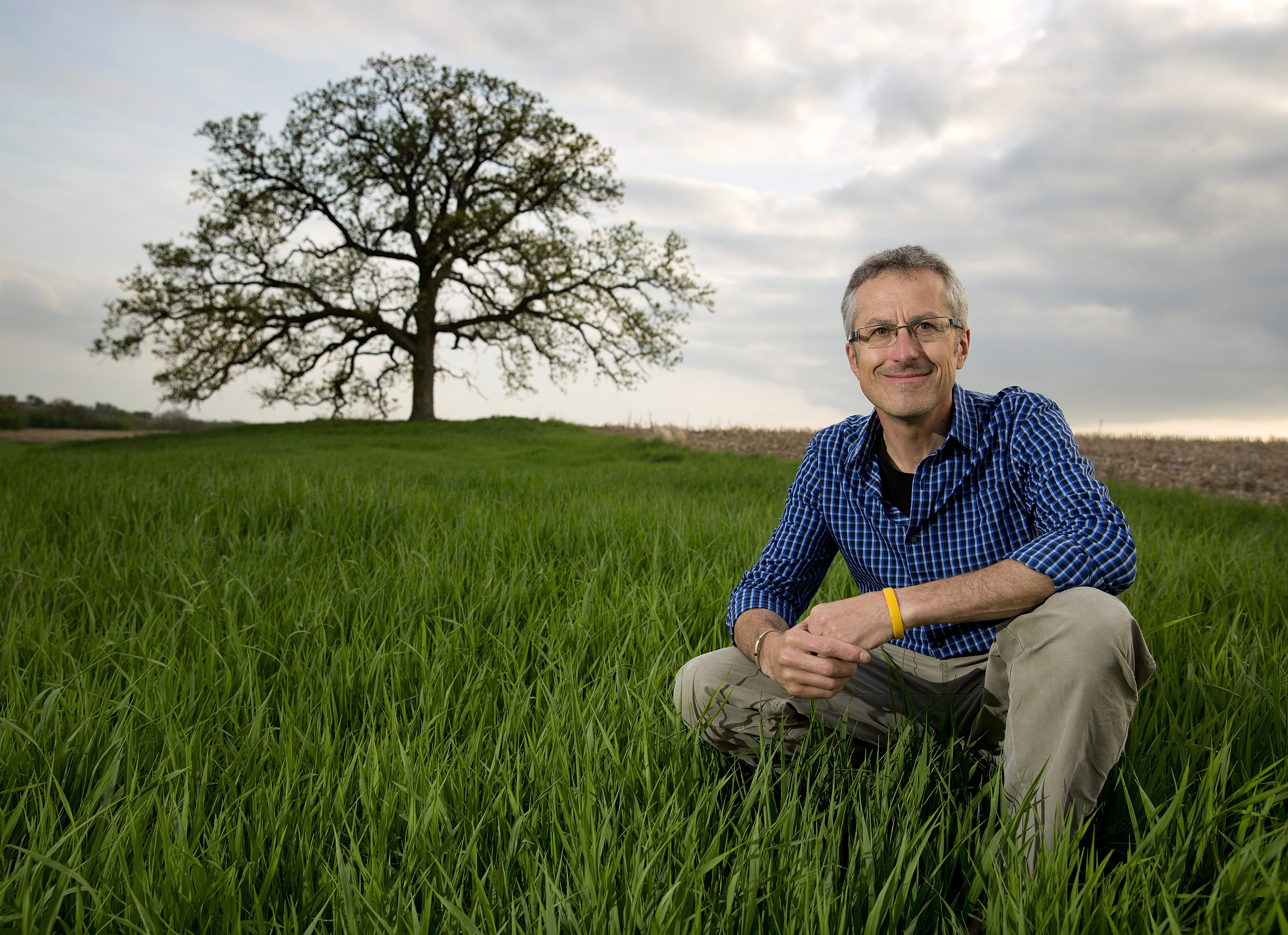 jpg image of Photographer Mark Hirsch, Author of That Tree